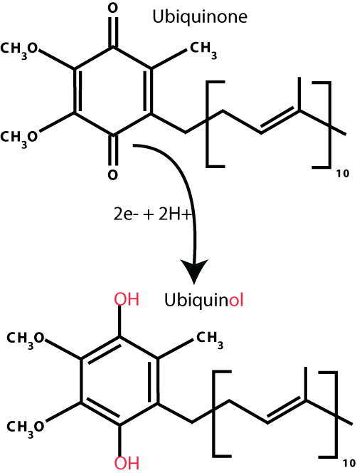 This molecular image shows the conversion of ubiquinone to ubiquinol.